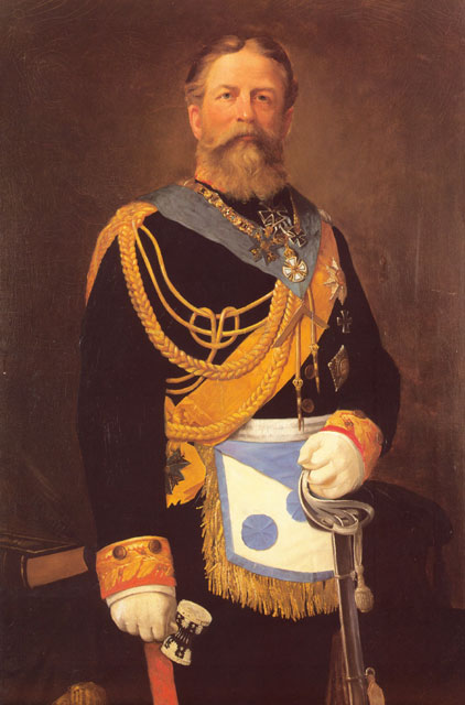 Friedrich III, German Emperor, King of Prussia